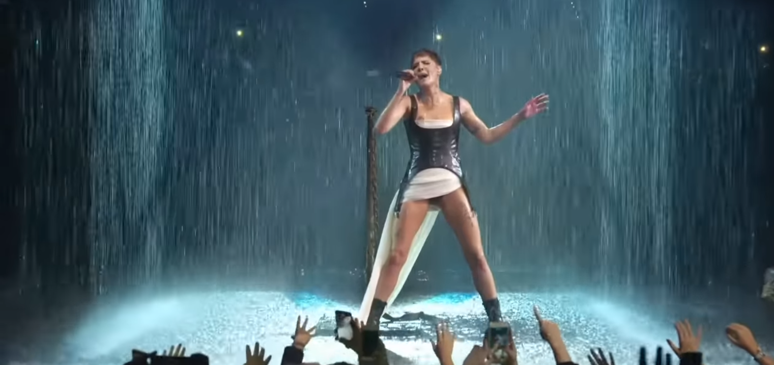 Halsey performs "Without Me" at the 2018 European Music Awards in Bilbao.